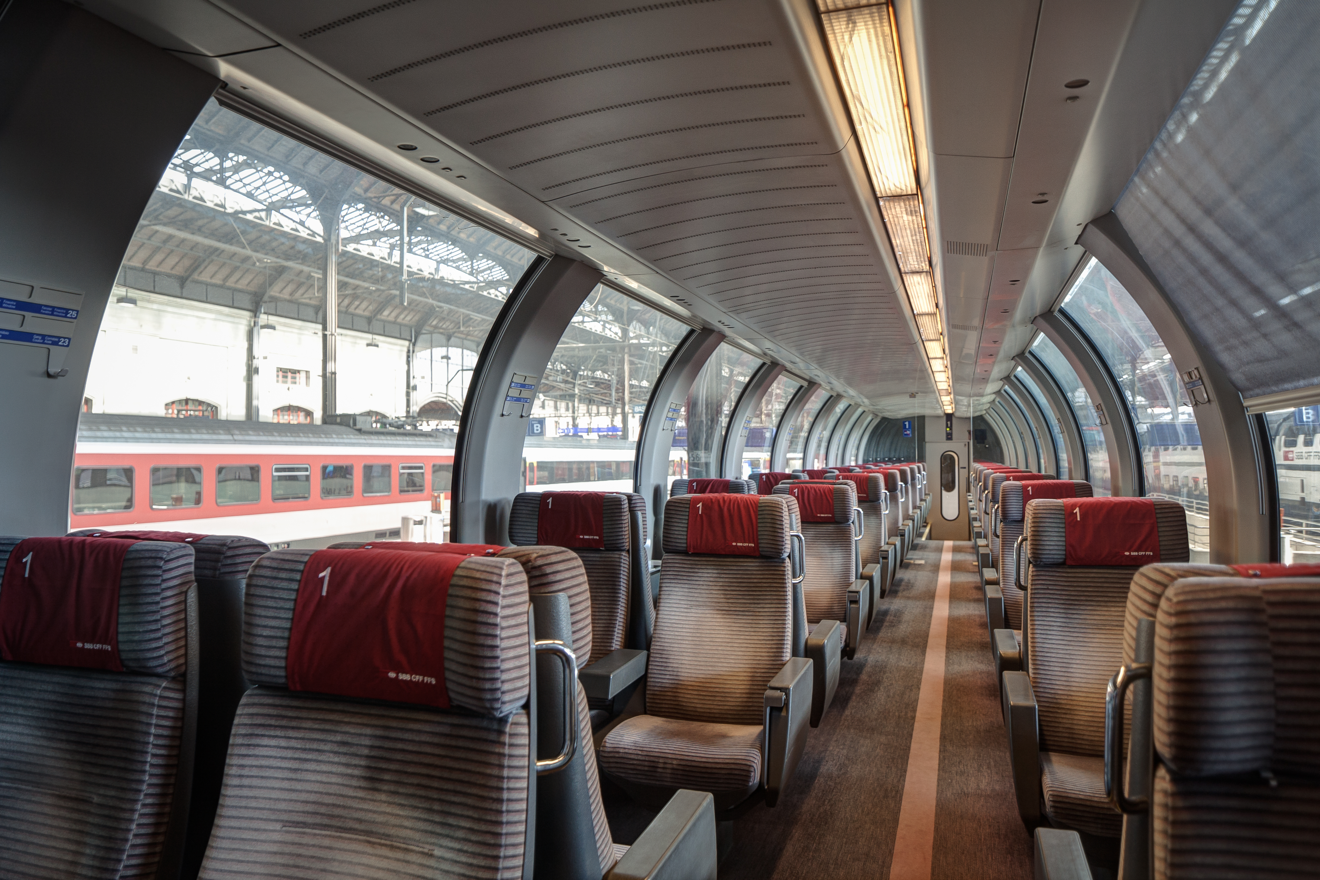 Interior of a dome car owned by the Swiss Federal Railways (SBB). The photograph was taken at the central station of Basel, Switzerland.